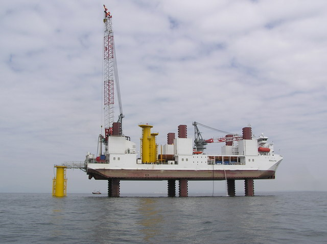 Jack Up Ship Note the fishing boat - itself some 20 metres in length - seen under the stern. Since this was taken there are now 32 turbines on the site.